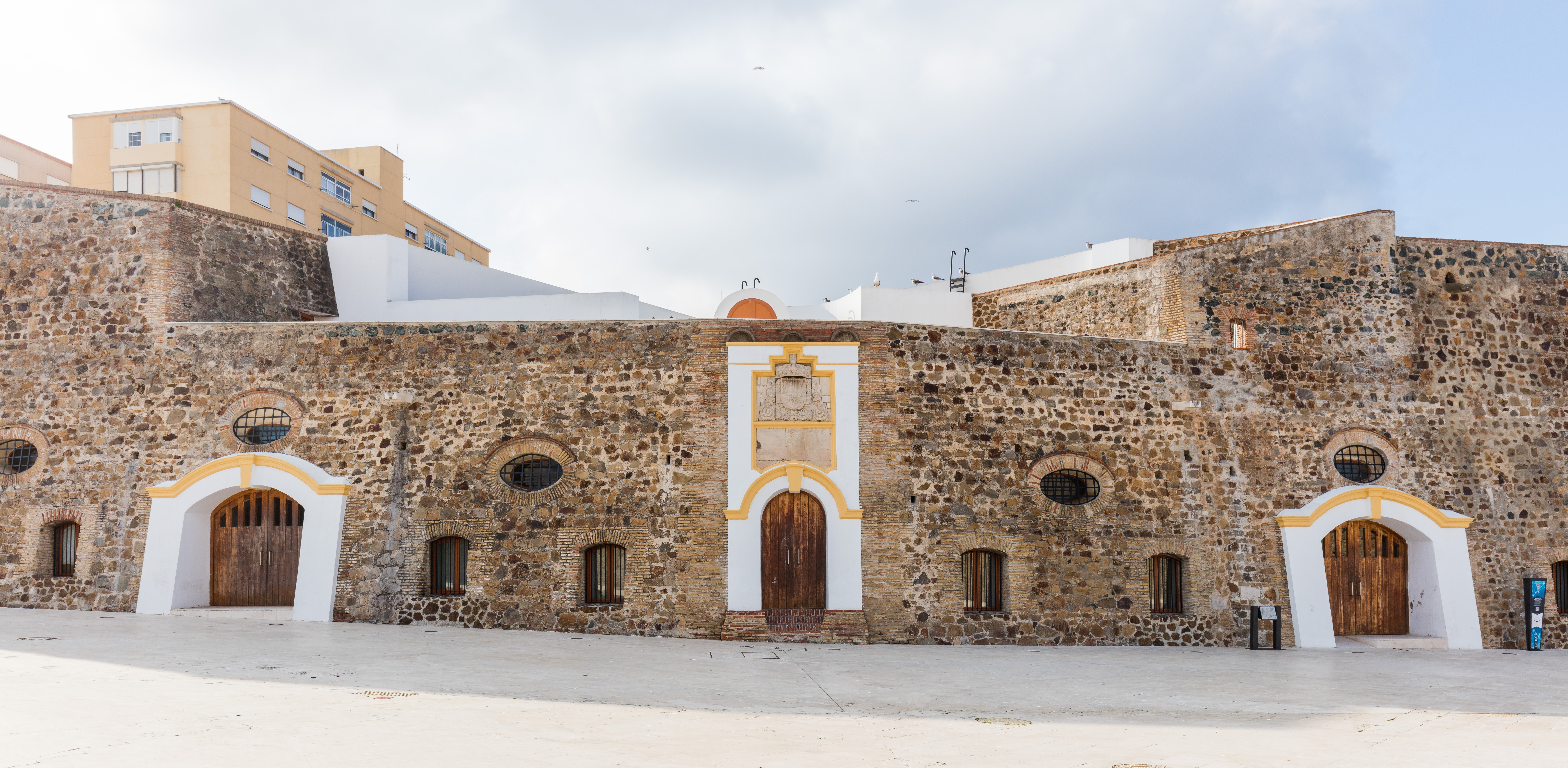 Royall Walls, Ceuta, Spain